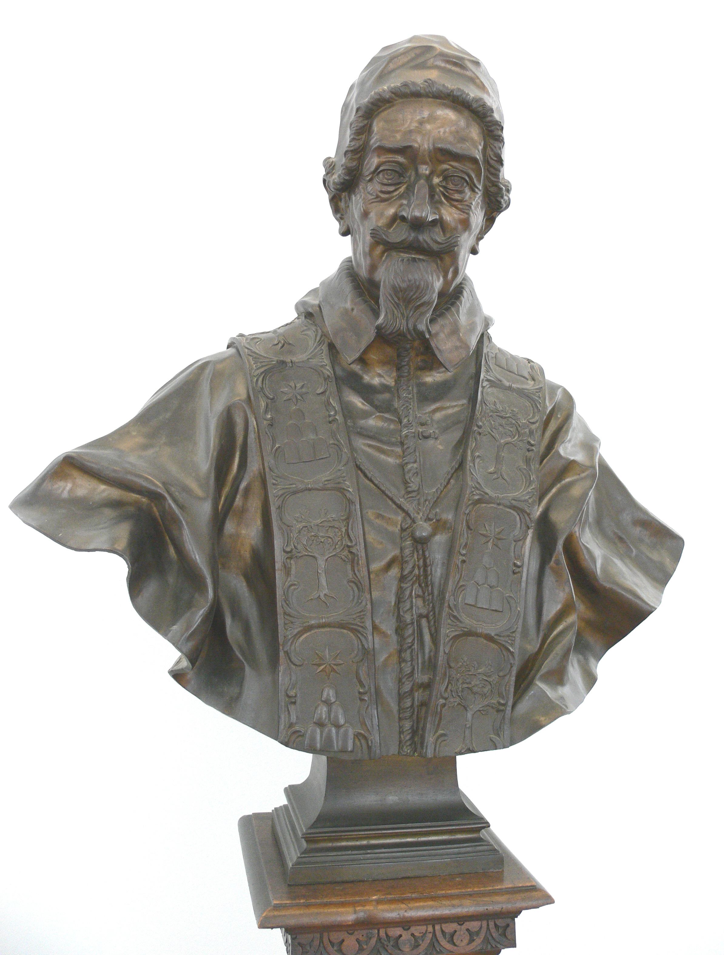 Domenico Guidi: Pope Alexander VII Chigi, bronze, Rome 1660-1667